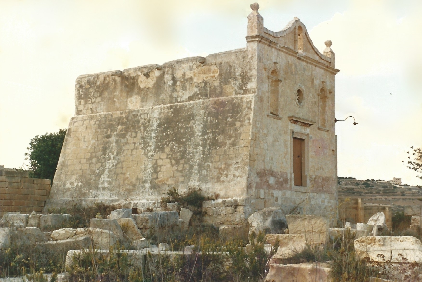 This media is about Maltese cultural property with inventory number 00014.